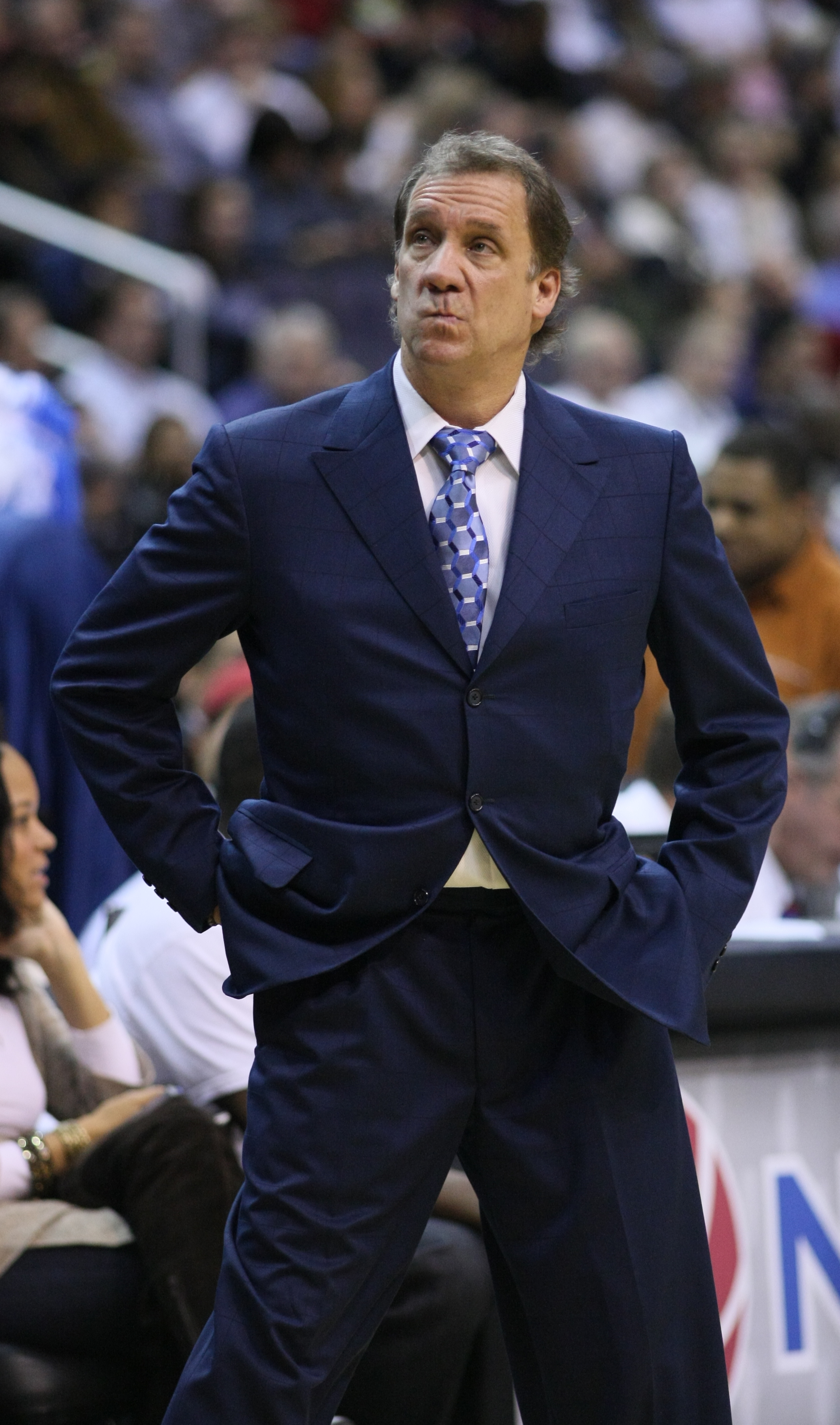 Flip Saunders, head coach of the Washington Wizards Washington Wizards v/s Cleveland Cavaliers November 18, 2009 at Verizon Center in Washington, D.C.